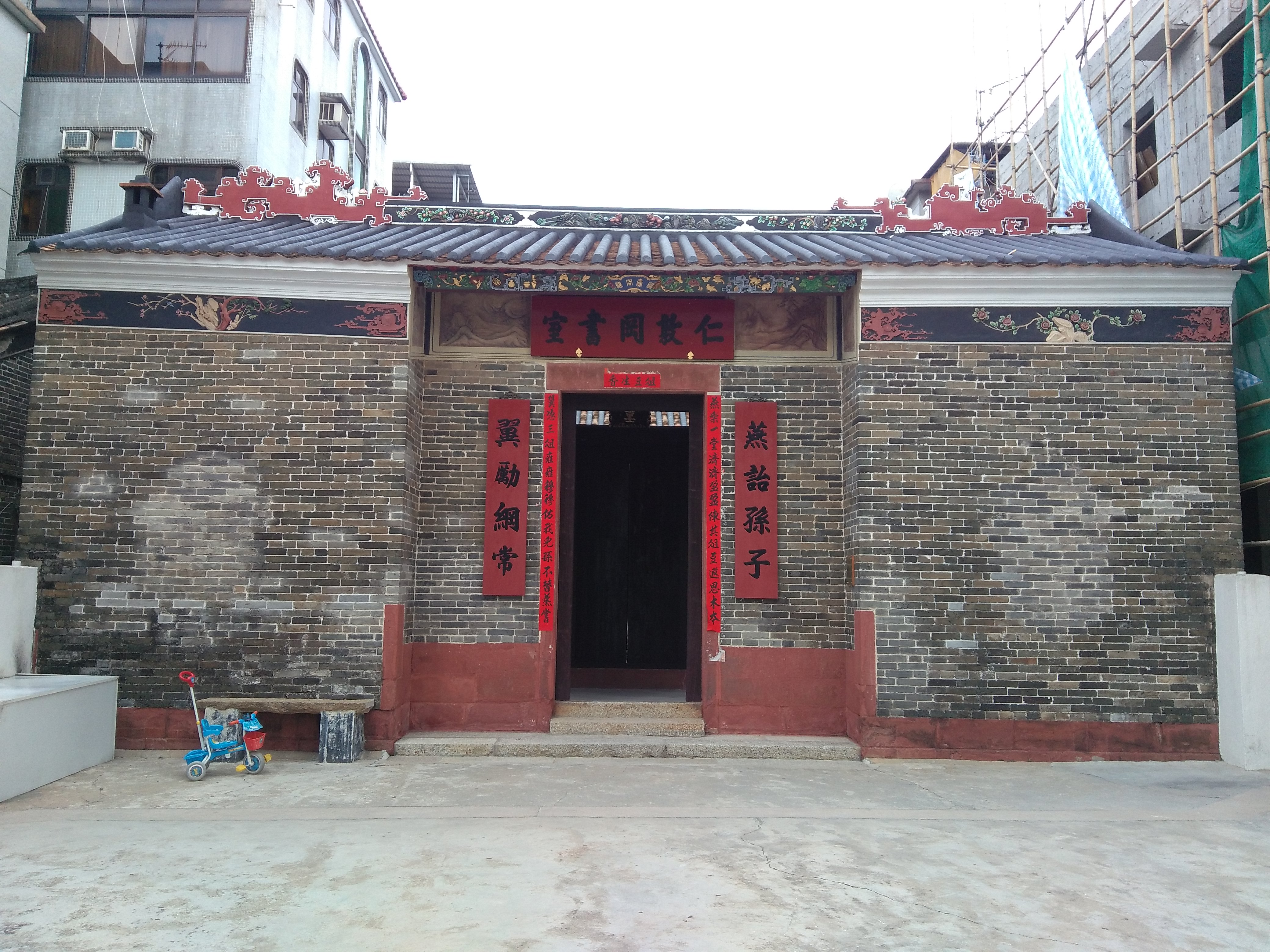 Hong Kong